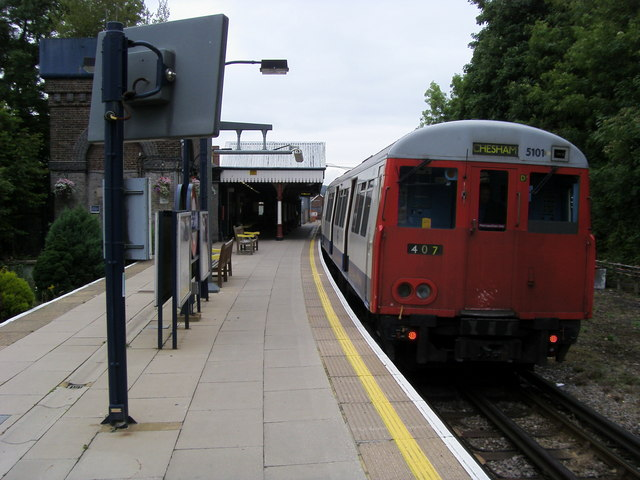 Chesham station Chesham station the end of the line, the driver will be change the destination board